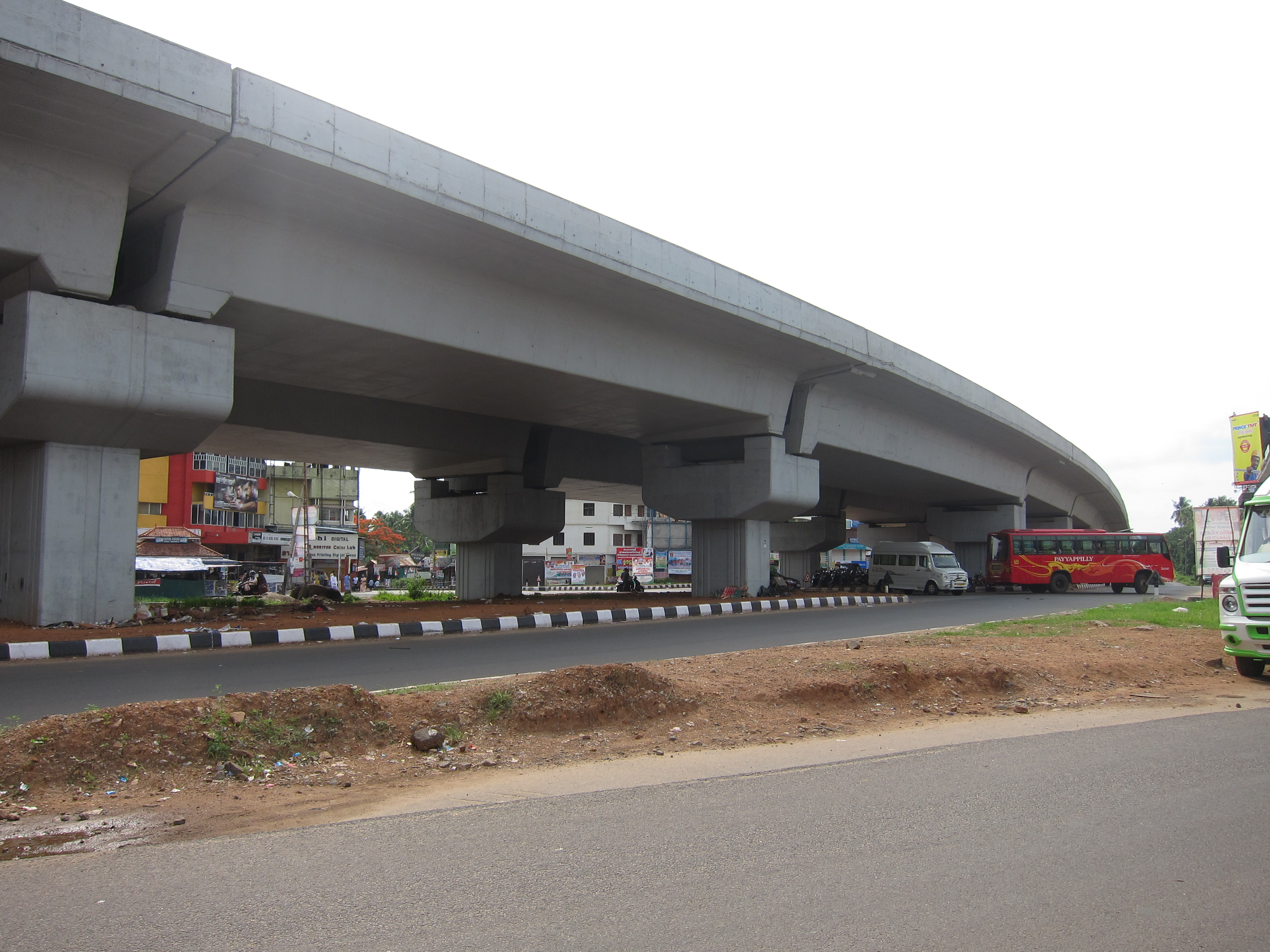 Chalakudy South - ചാലക്കുടി സൗത്ത് ചാലക്കുടി_സൗത്തിലെ എൻ.എച്ച് 544 മേല്പാലം. Thrissur - ത്രിശ്ശൂർ